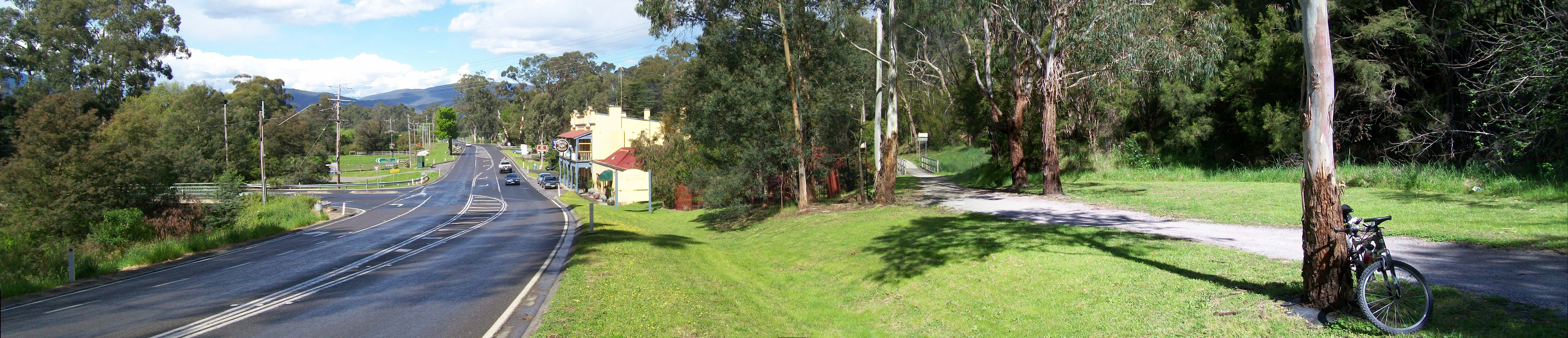 Lilydale to Warburton Rail Trail, Launching Place, Victoria (panorama)